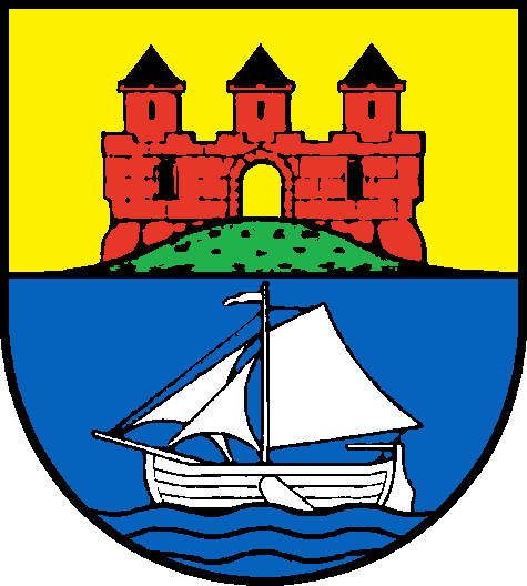 Coat of arms of the town Kellinghusen in Schleswig-Holstein, Germany.